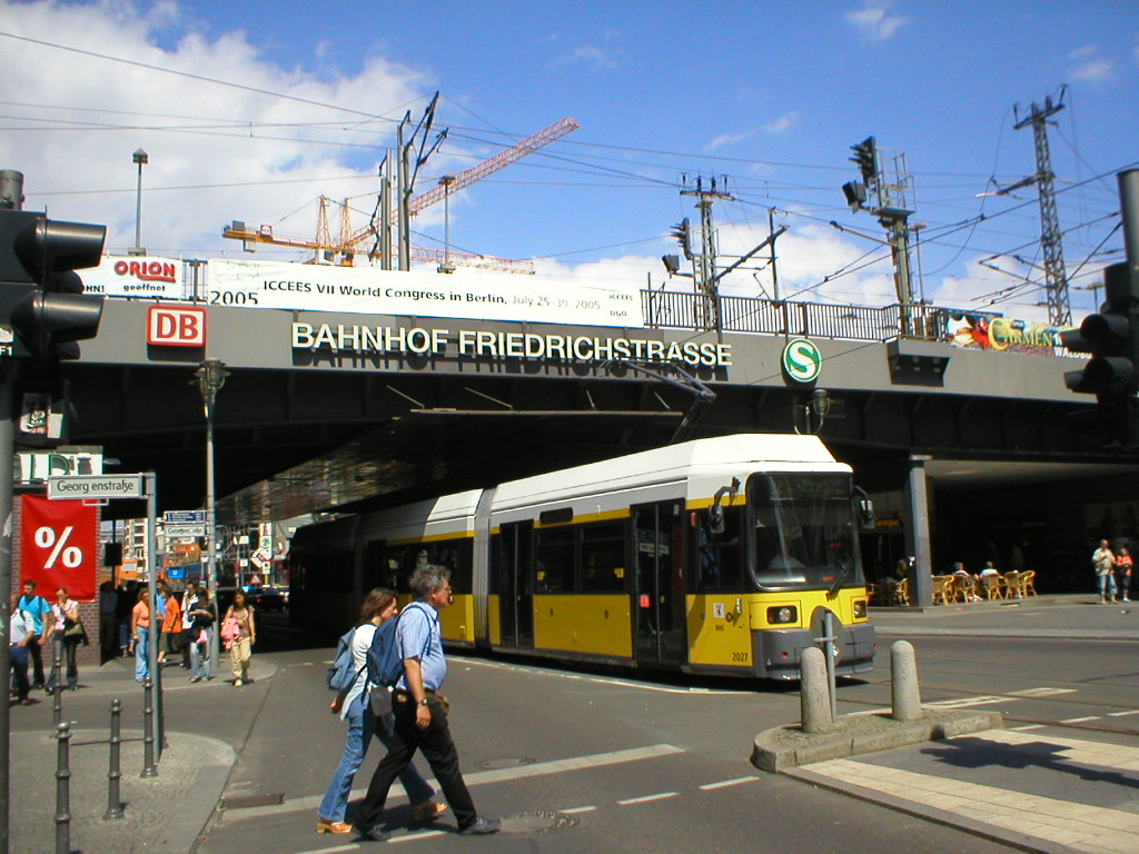 A Berlin tramway at the train station "Berlin Friedrichstraße"